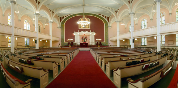 Panoramic view of the sanctuary of Congregation Baith Israel Anshei Emes/The Kane Street synagogue